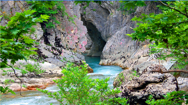 The exit of the canyon of Acheron river.